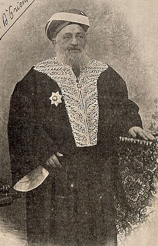 Jacob Meir, (1856-1939), Sephardic Chief Rabbi appointed under the British Mandate of Palestine.